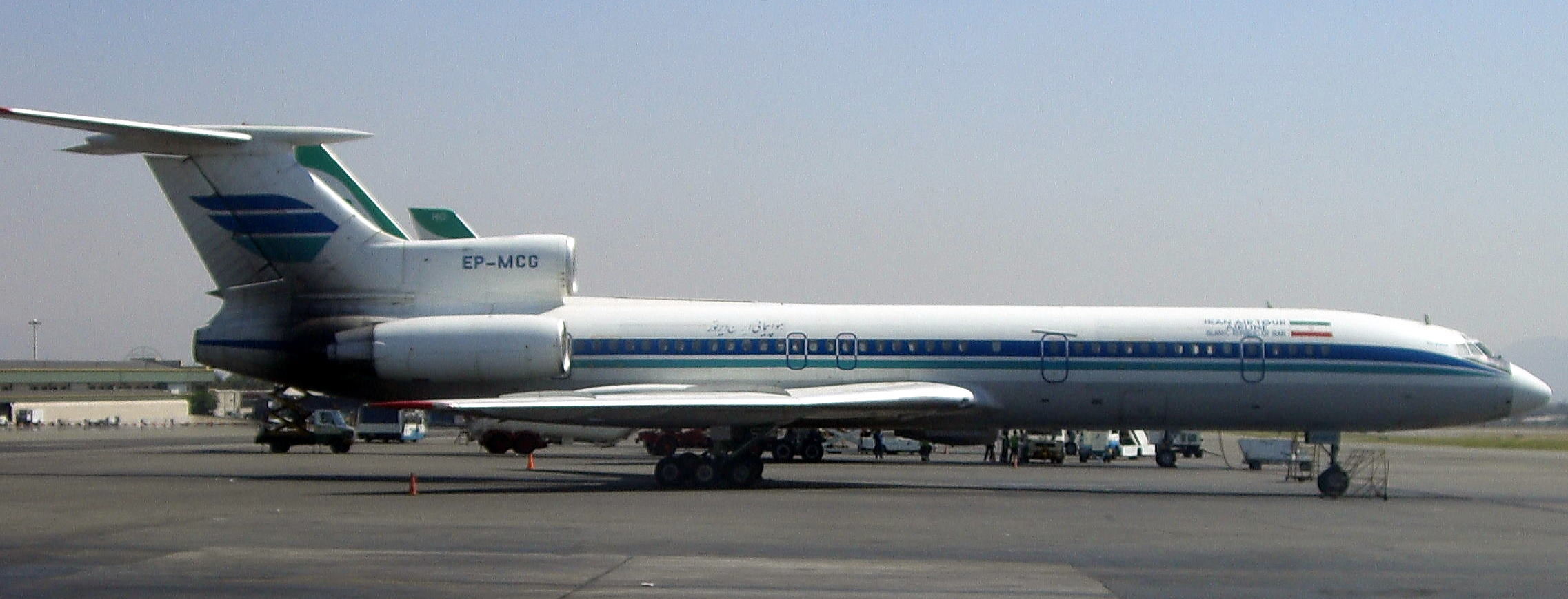 TupolevTu-154M of IranAirTours. Taked Photograh at Shiraz Int'l airpprt(Iran).